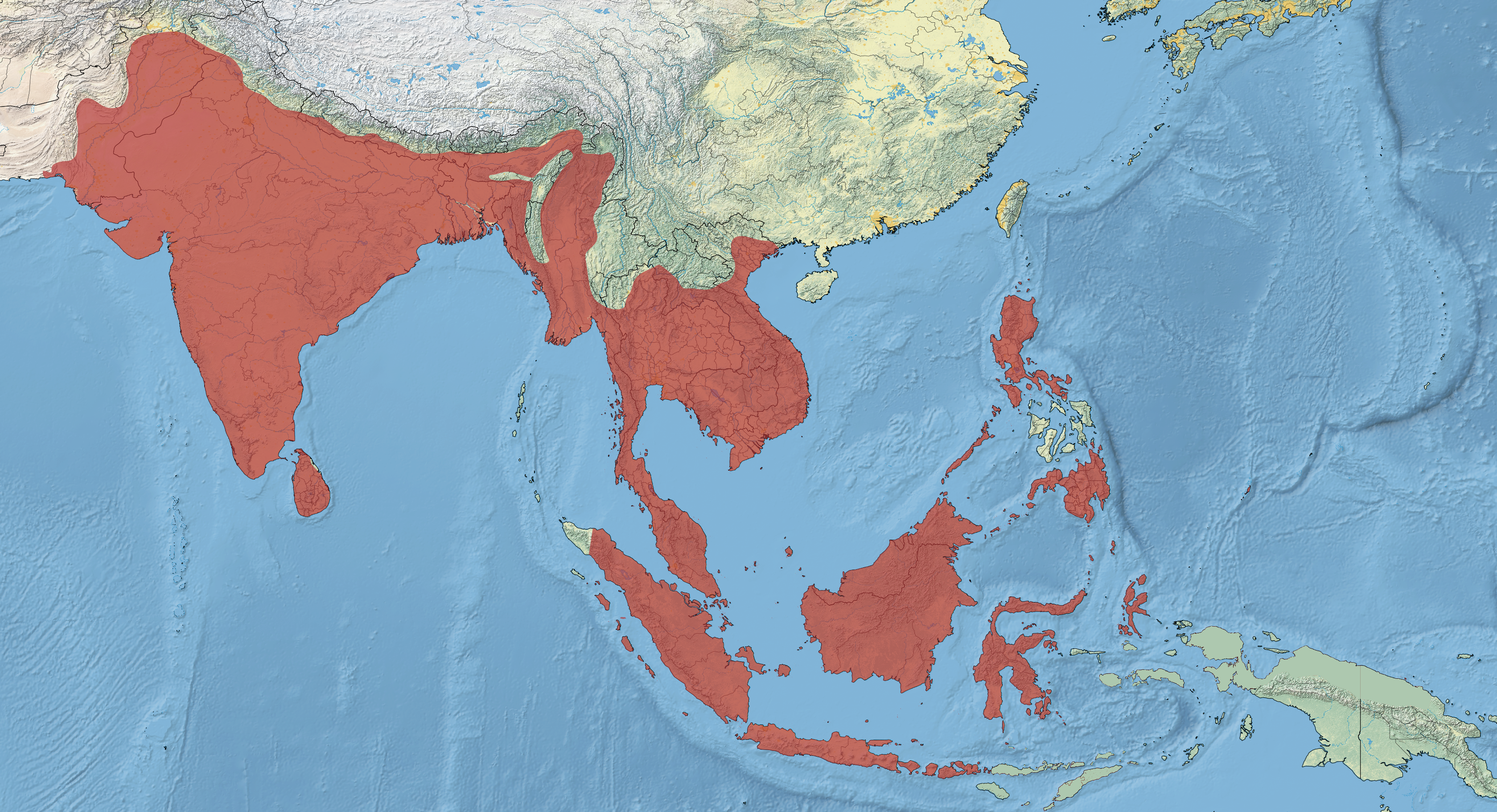 The approximate distribution of the Oriental Darter, according to the IUCN Red List.